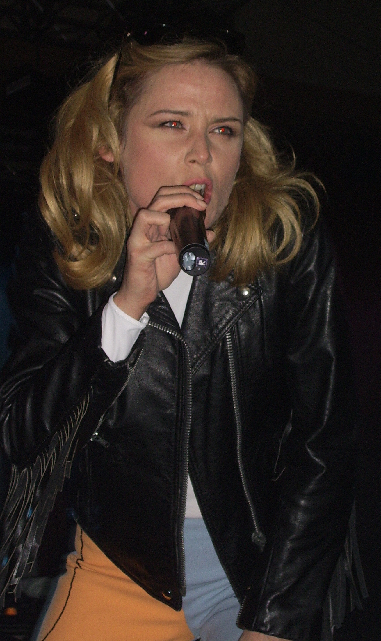 Róisín Murphy live in Sofia, Bulgaria.